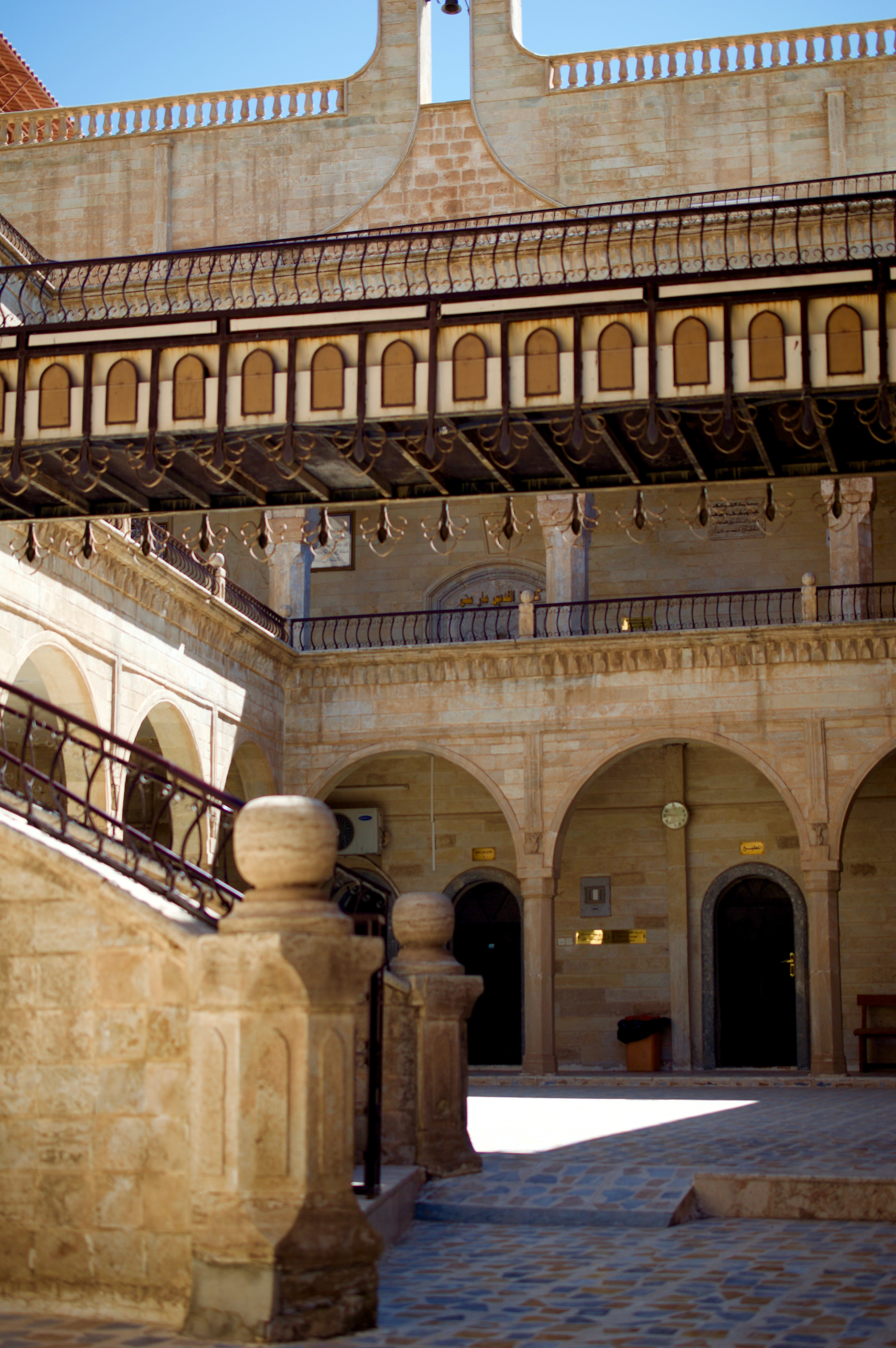 Saint Matthew Monastery (Der Mar Matti), a Syriac Orthodox monastery overlooking the Nineveh Plains towns of Bashiqa and Bartella, in between the Kurdistan Region and Iraq.